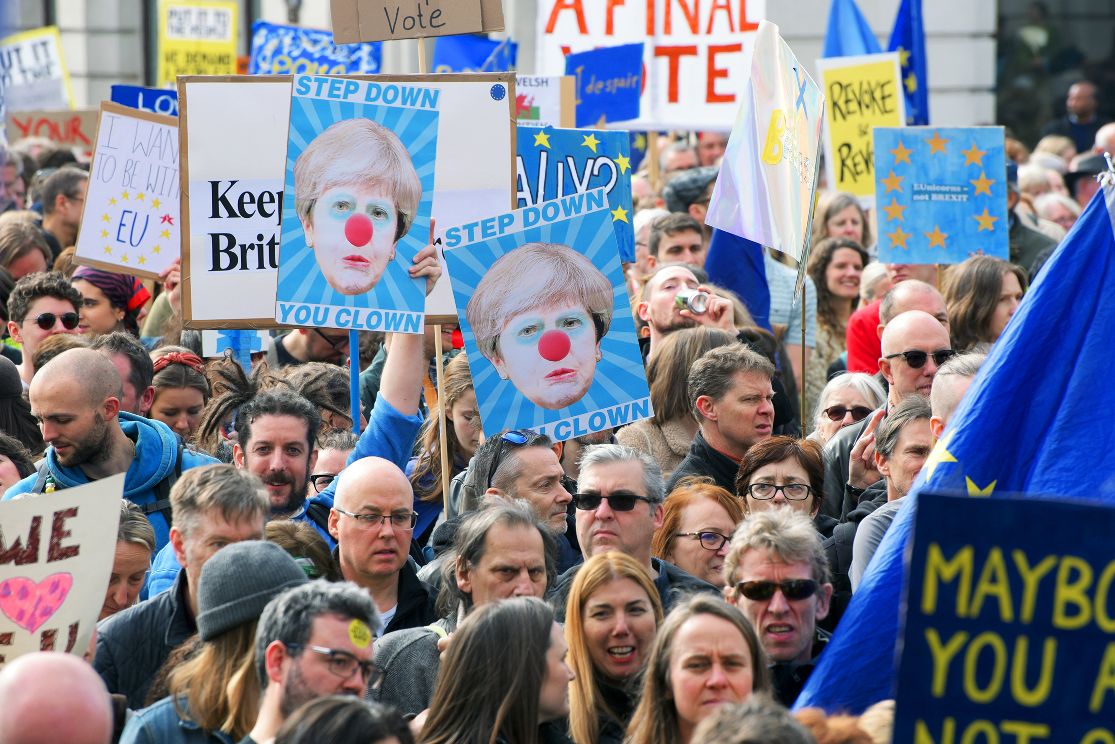 Put It To The People March #3, London, UK